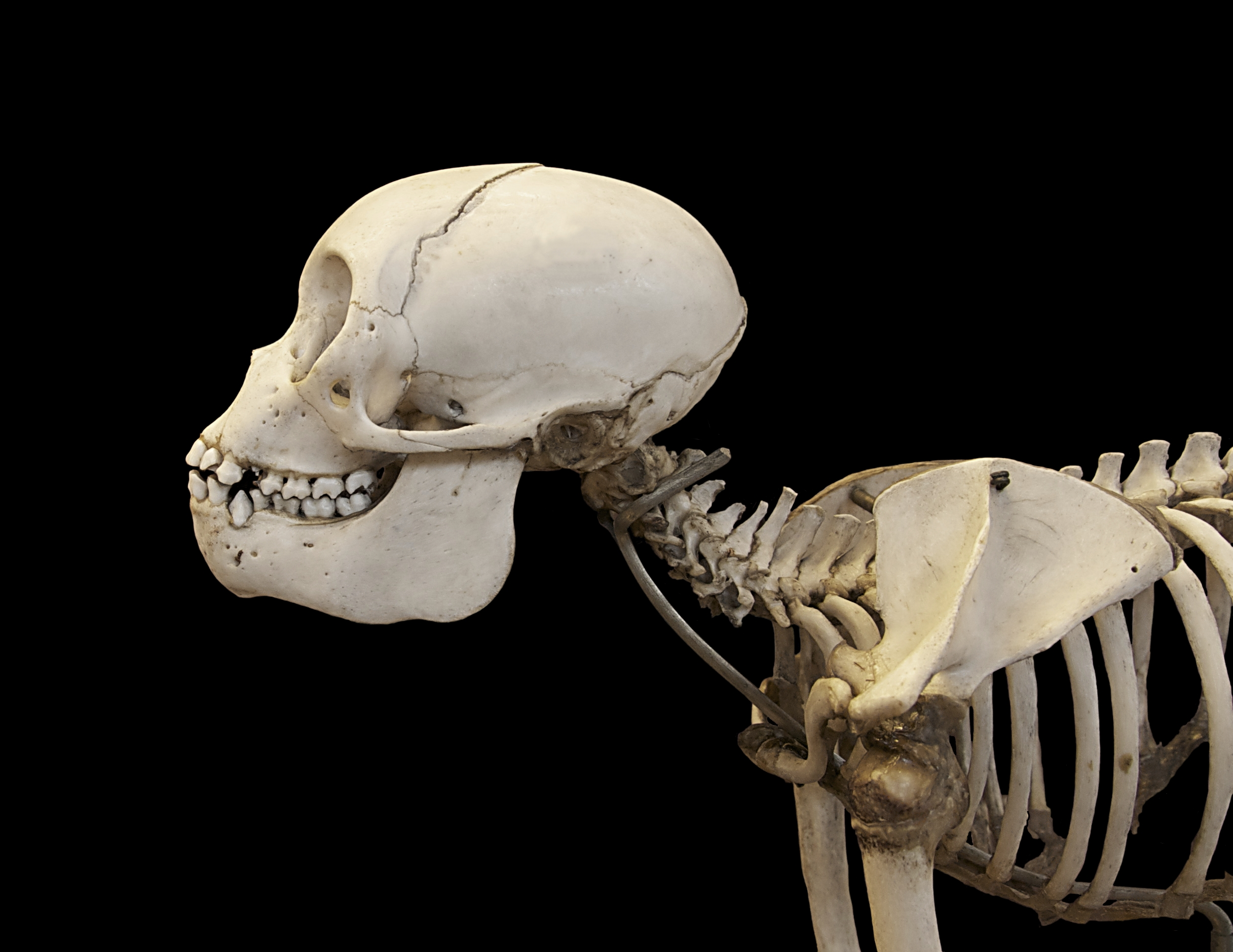 Lagothrix lagotricha humb. Common Woolly Monkey. Male. The biggest monkey of America. Skull, neck vertebrae and shoulders. On display at french National Museum of Natural History, Galleries of Paleontology and Compared Anatomy, Paris.